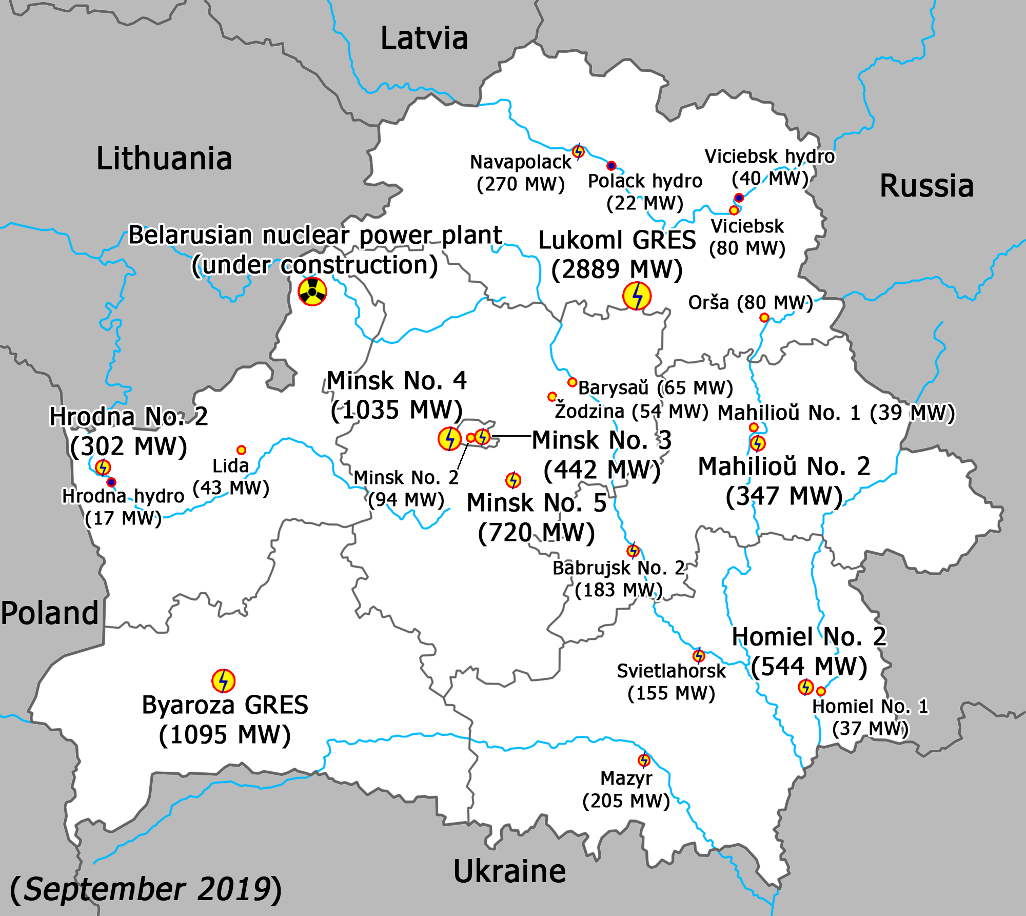 Map of power plants in Belarus, september 2019. Data from